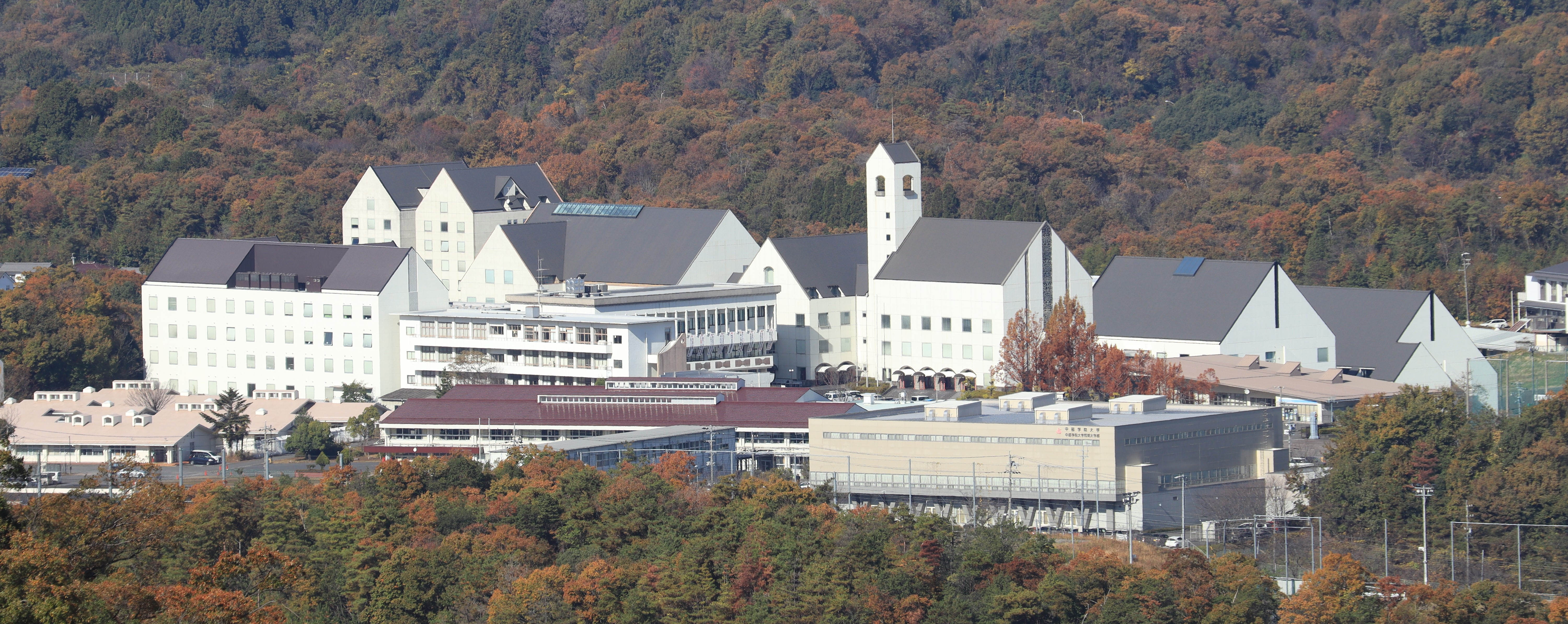 Chubu Gakuin University seen from Mount Meio in Seki, Gifu prefecture, Japn.